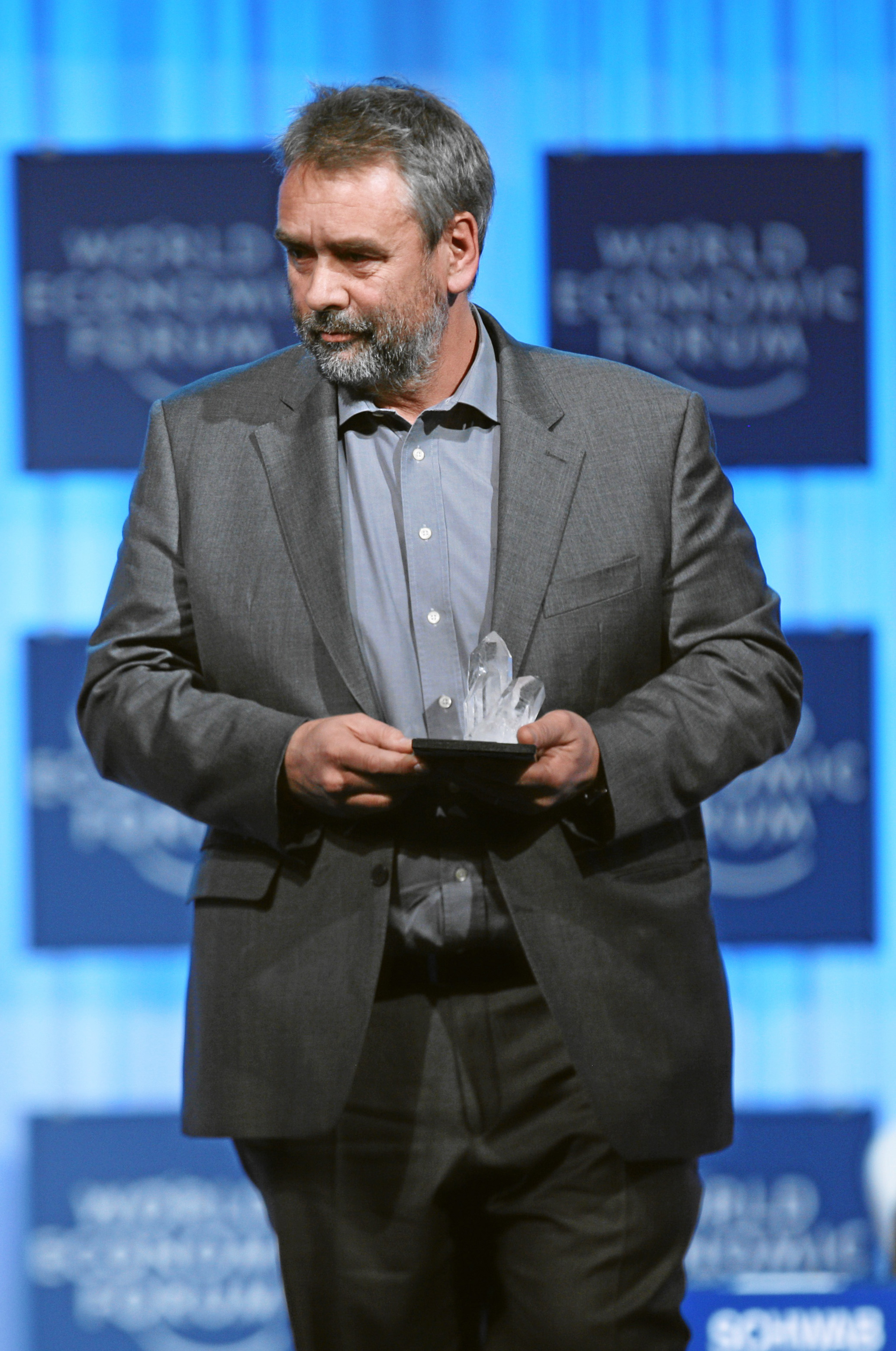 DAVOS/SWITZERLAND, 25JAN12 - Luc Besson, Filmmaker, Screenwriter and Producer; Founder, EuropaCorp, France the Annual Meeting 2012 Walks off the stage with the Crystal Award at the Annual Meeting 2012 of the World Economic Forum at the congress centre in Davos, Switzerland, January 25, 2012.. . Copyright by World Economic Forum. by Sebastian Derungs